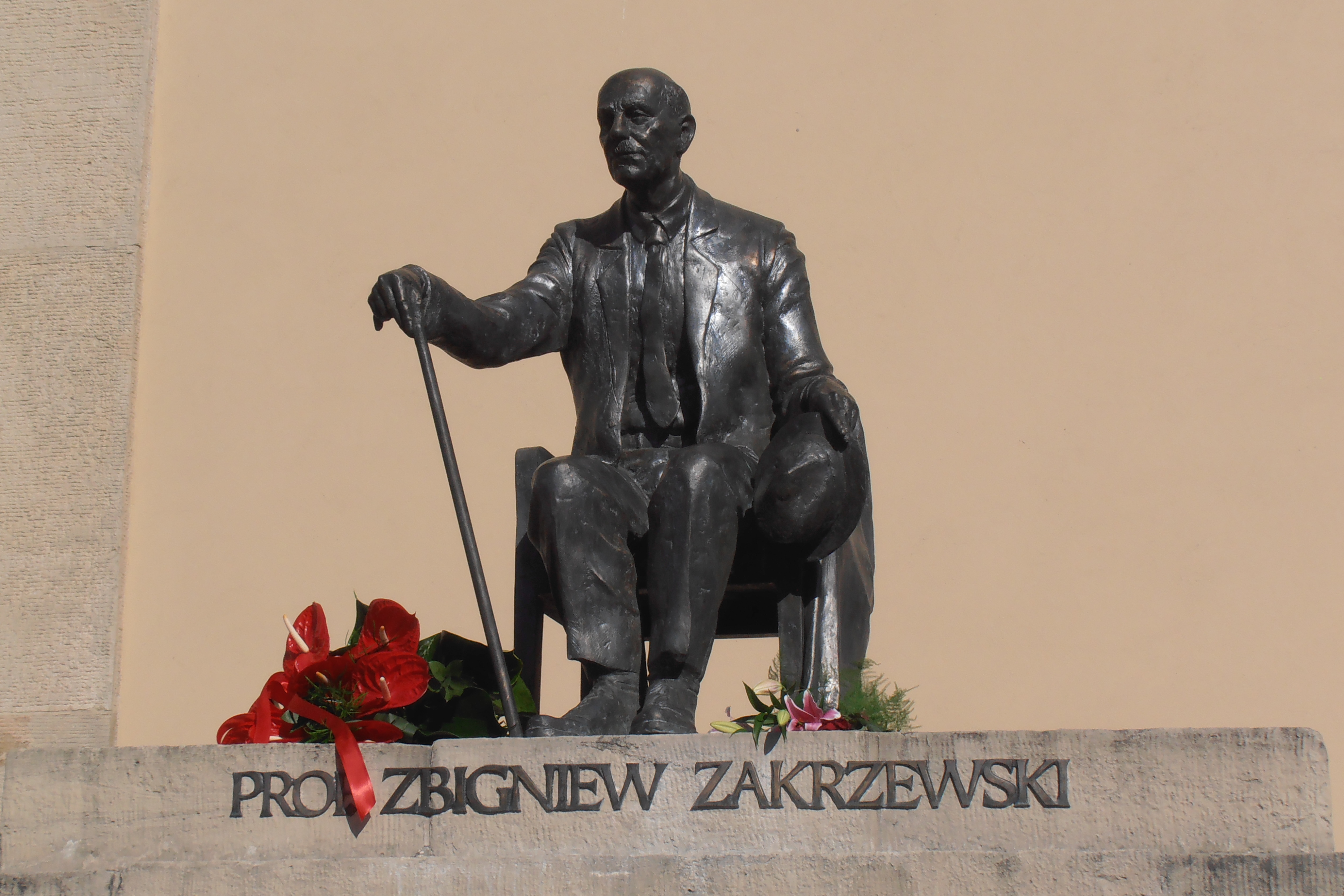 Pomnik Zbigniewa Zakrzewskiego w Poznaniu